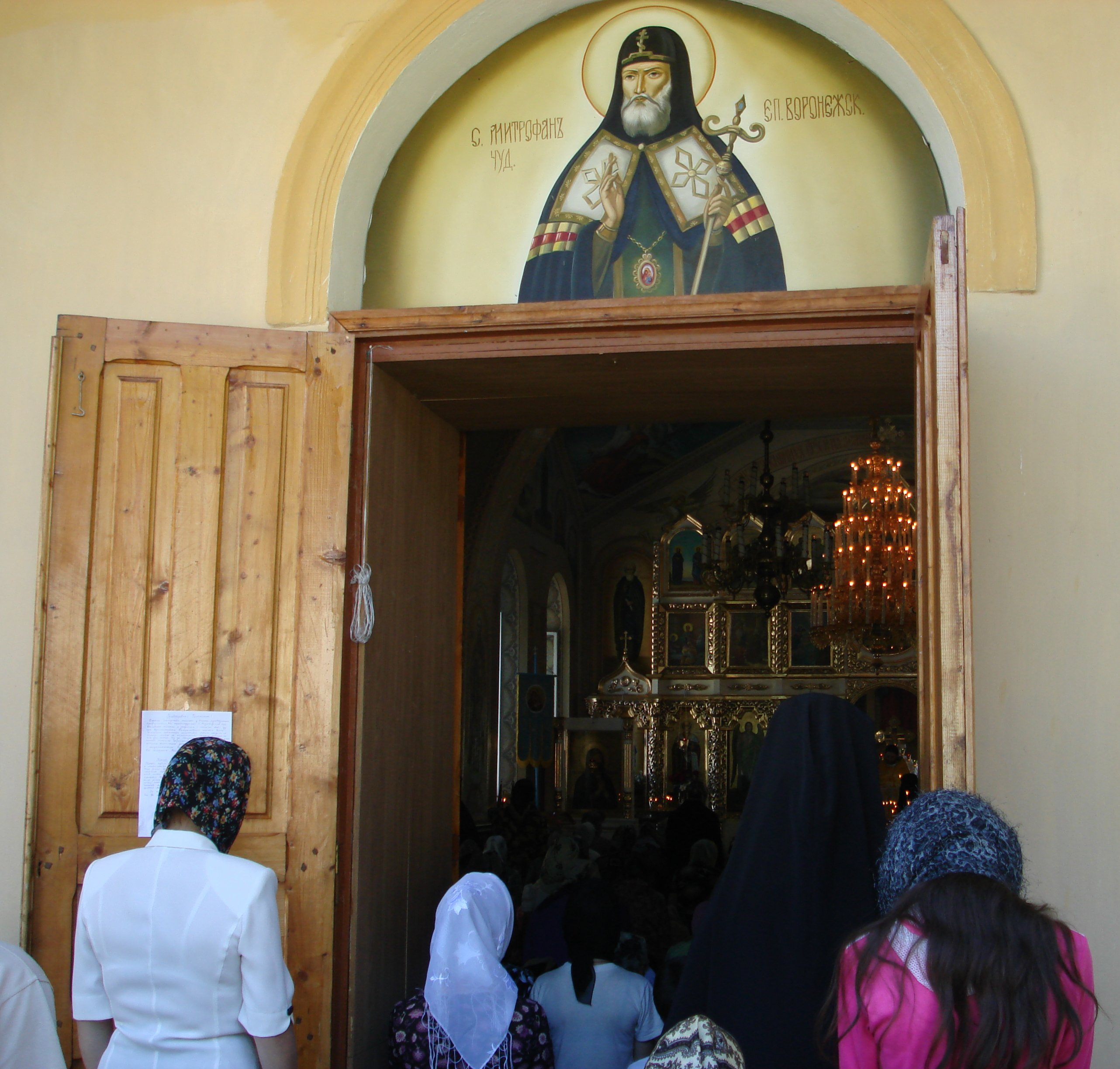 Călărăşeuca monastery, Moldova